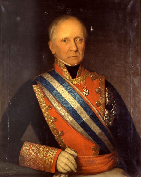 Portrait of the Admiral of the Spanish Navy Roque Guruceta y Aguado (1771-1854)